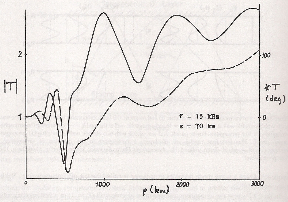 Fieldstrength vs Distance of VLF wave (diagram)